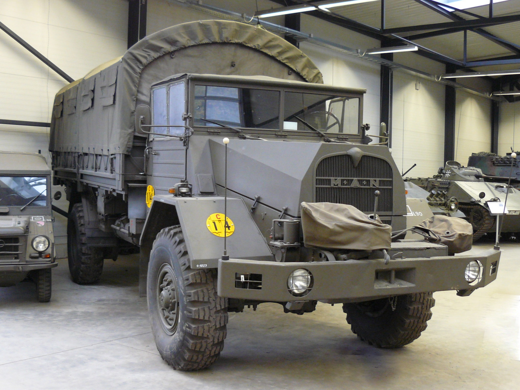 MAN 630 of the Bundeswehr in the German Tank Museum.